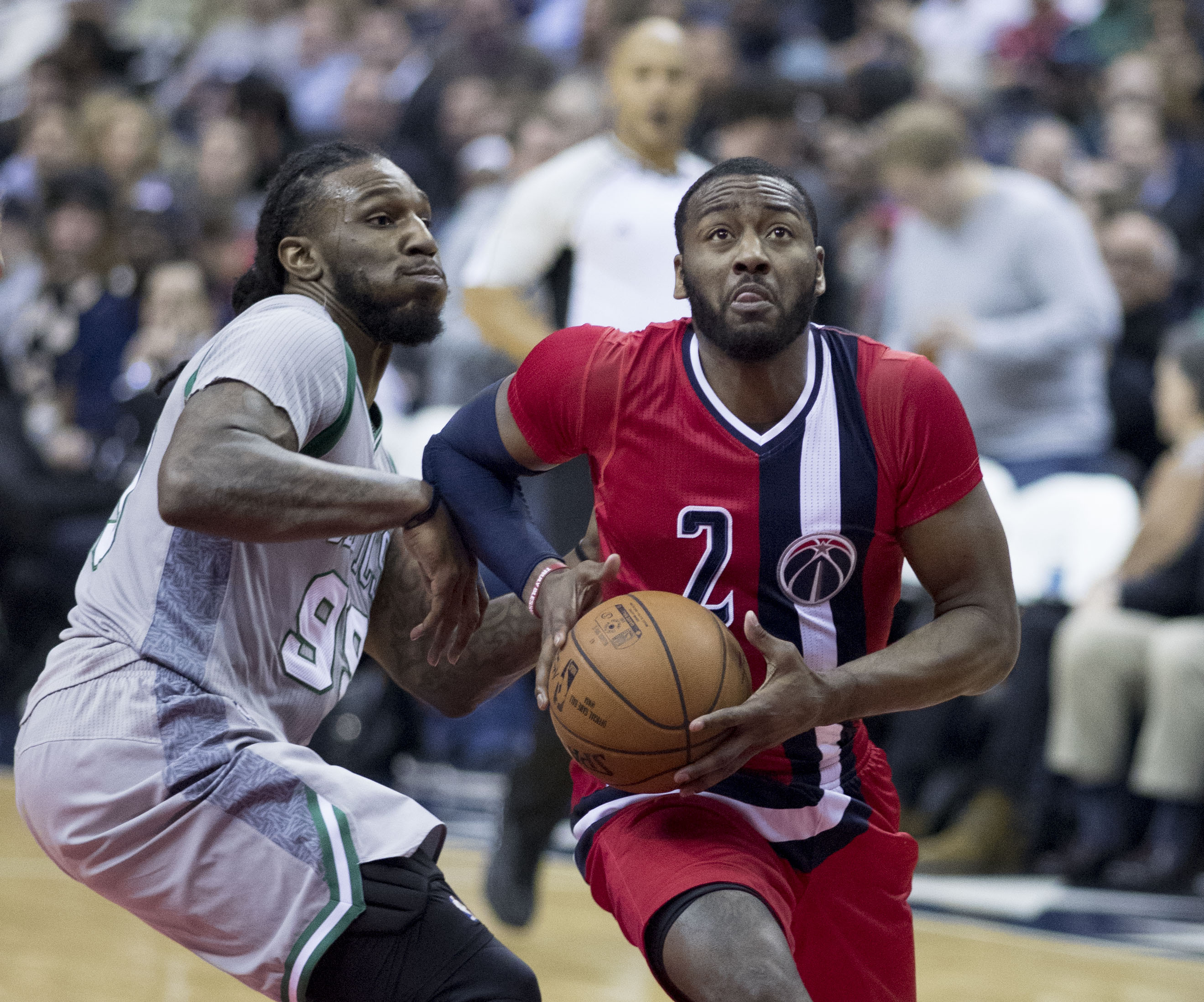 John Wall attacking the basket during a Washington Wizards game versus the Boston Celtics in 2017.